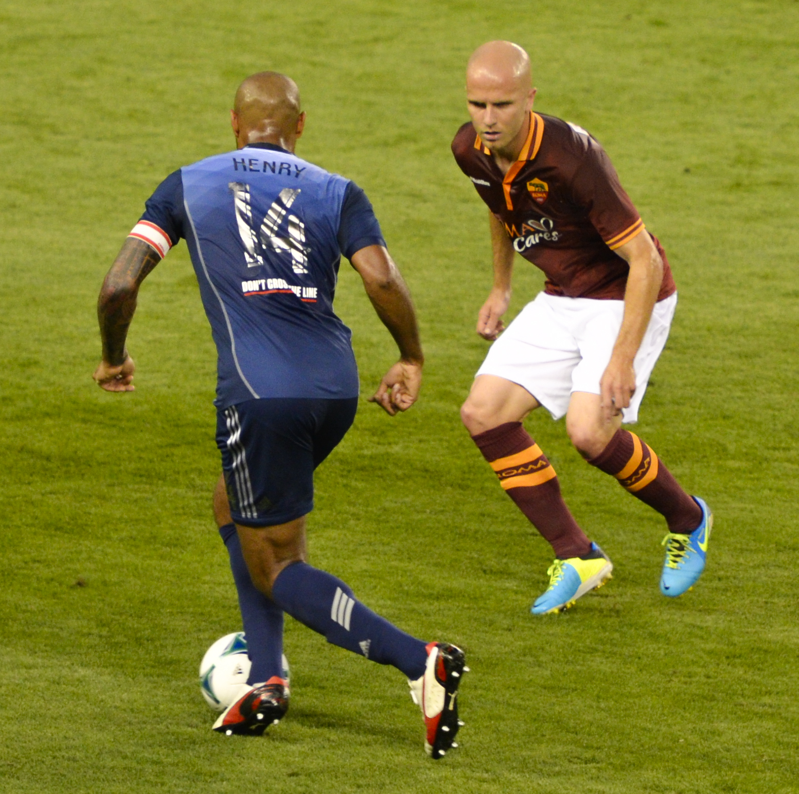 Thierry Henry of the 2013 MLS All Stars (Representing the New York Red Bulls) takes on Michael Bradley of A.S. Roma. Date: 31JUL2013, Sporting Park, Kansas City, Kansas